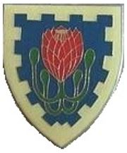 SADF era Mosselbay Commando emblem